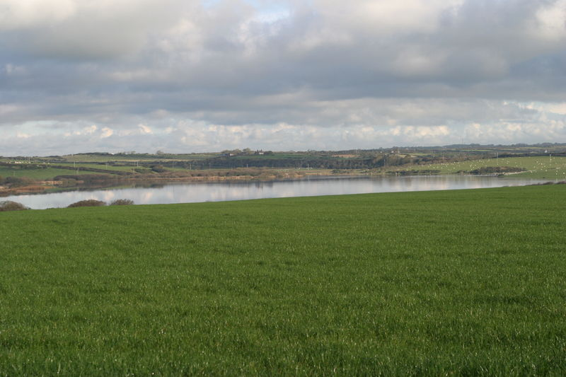 Llyn Coron, Aberffraw, Anglesey